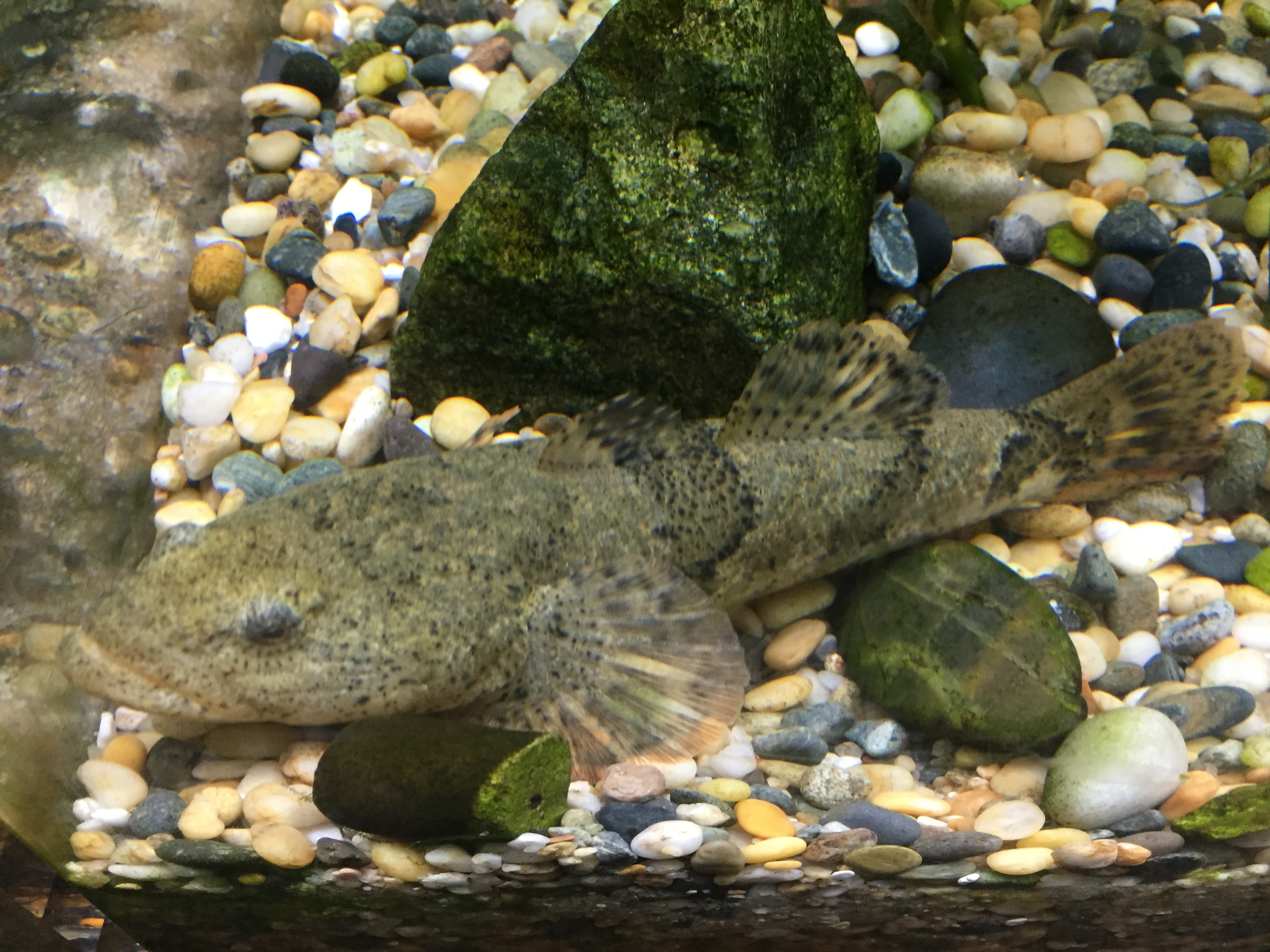 Odontobutis platycephala or "Korea dark sleeper" - picture taken in COEX Aquarium, Seoul, South Korea